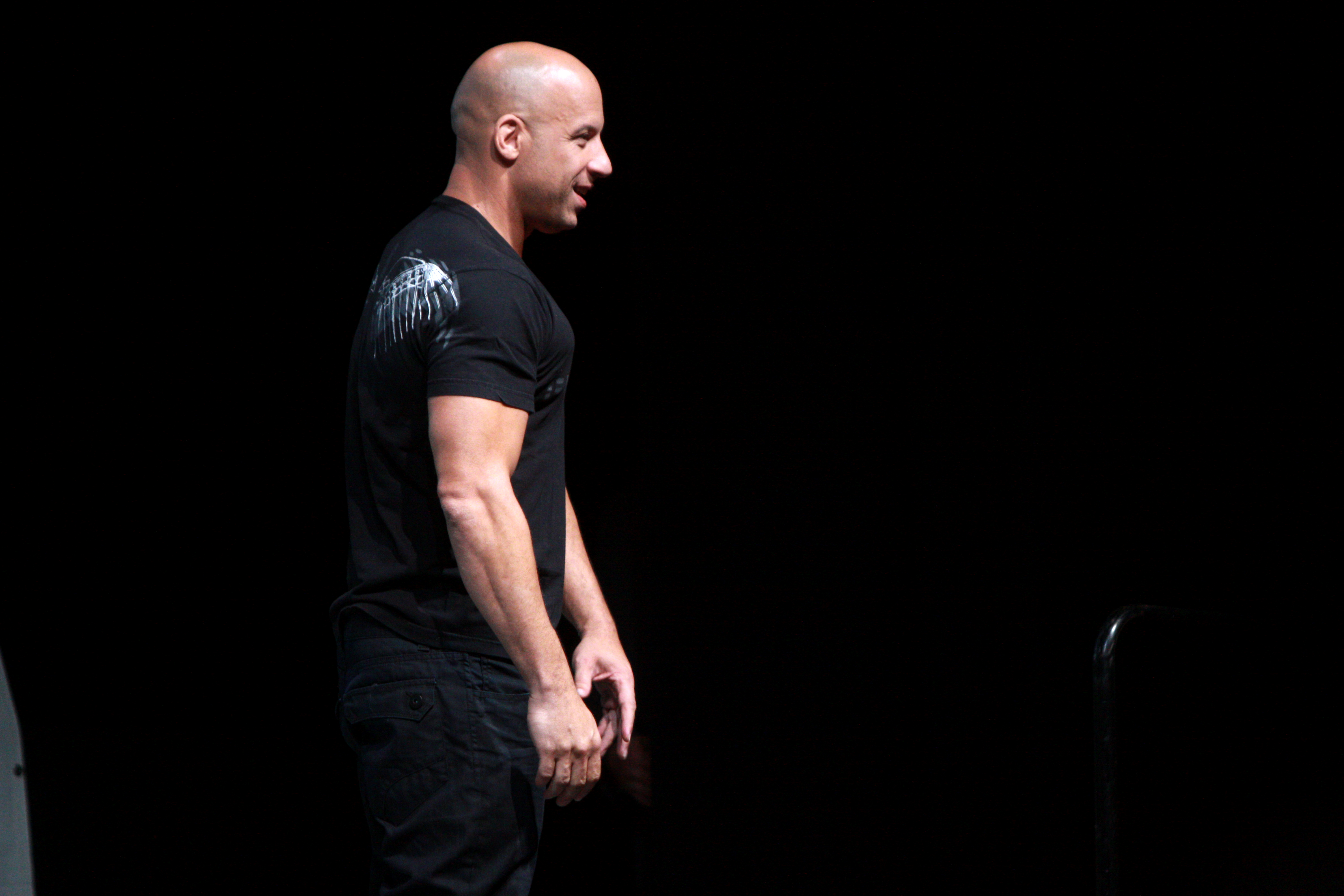 Vin Diesel speaking at the 2013 San Diego Comic Con International, for "Riddick", at the San Diego Convention Center in San Diego, California.